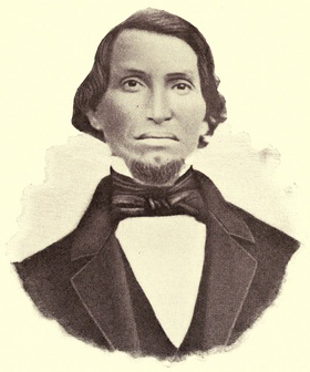 Charles Journeycake when he visited Washington DC